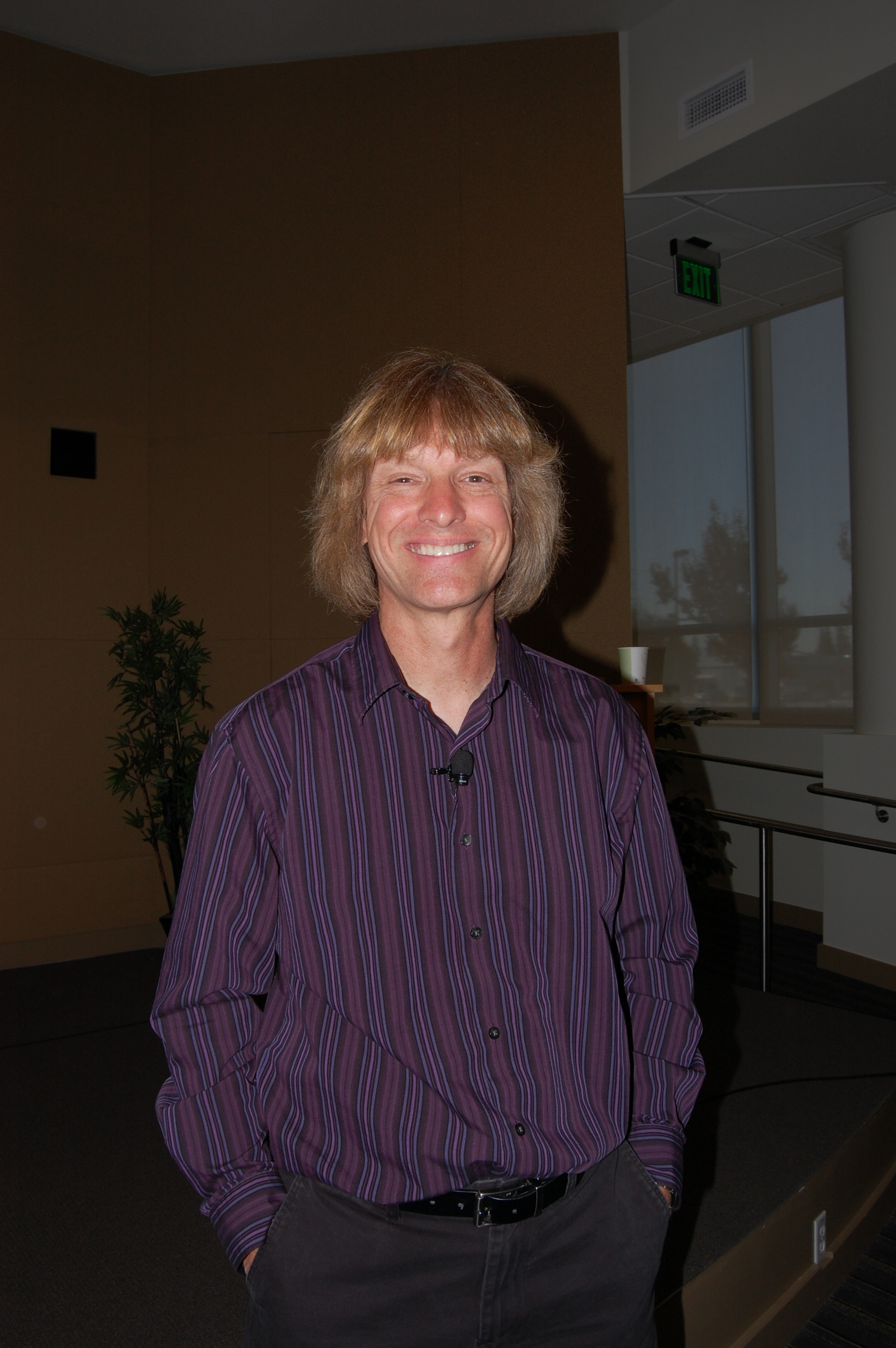 Scott Meyers, programmer and author of "Effective C++" series on presentation in Cadence Design Systems